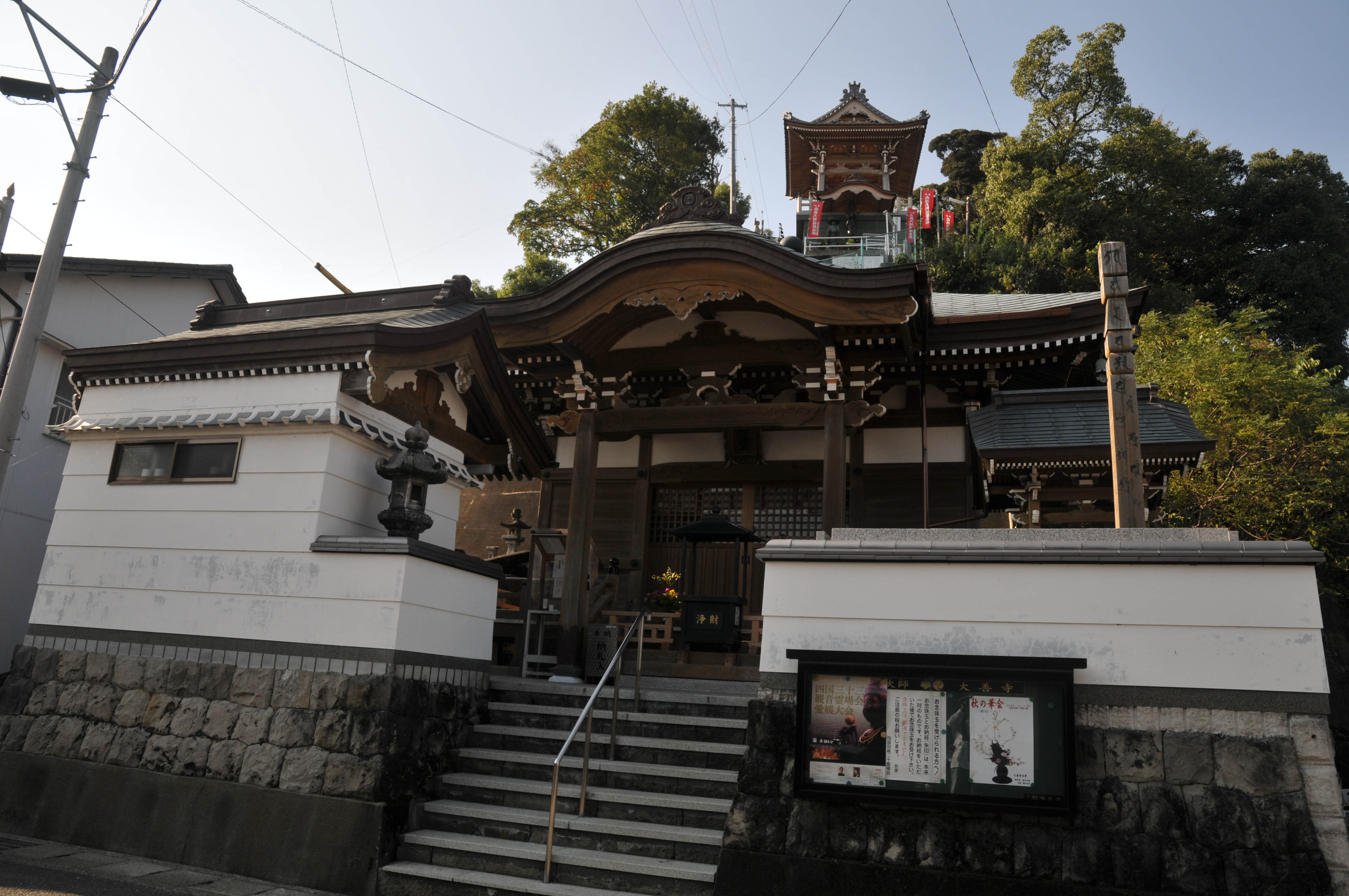 Daizen-ji temple